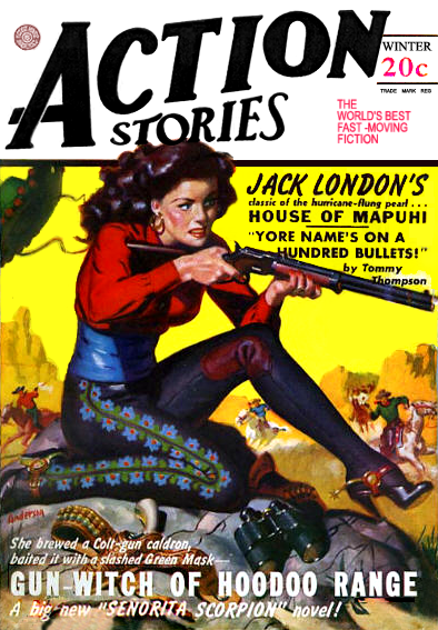 Action Stories (Fiction House, 1948). Artwork by Allen Anderson. Throughout the 1940s, Fiction House published a wide range of pulp magazines and comic books.